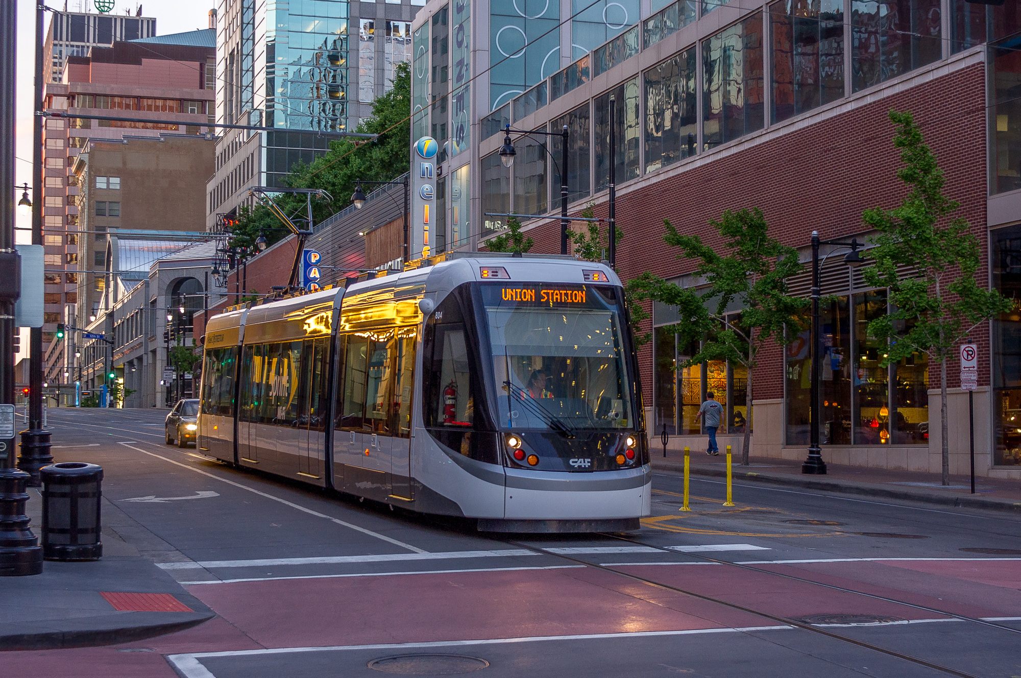 A CAF Urbos 3 streetcar of the RideKC Streetcar system, in Kansas City, Missouri, southbound on Main Street three days before the system opened for service.